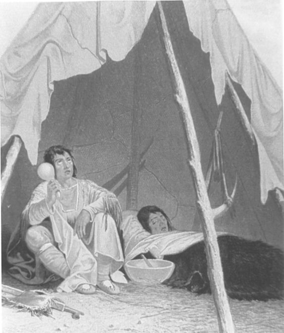 This is an engraving showing a Native American medicine man caring for an ill Native American.